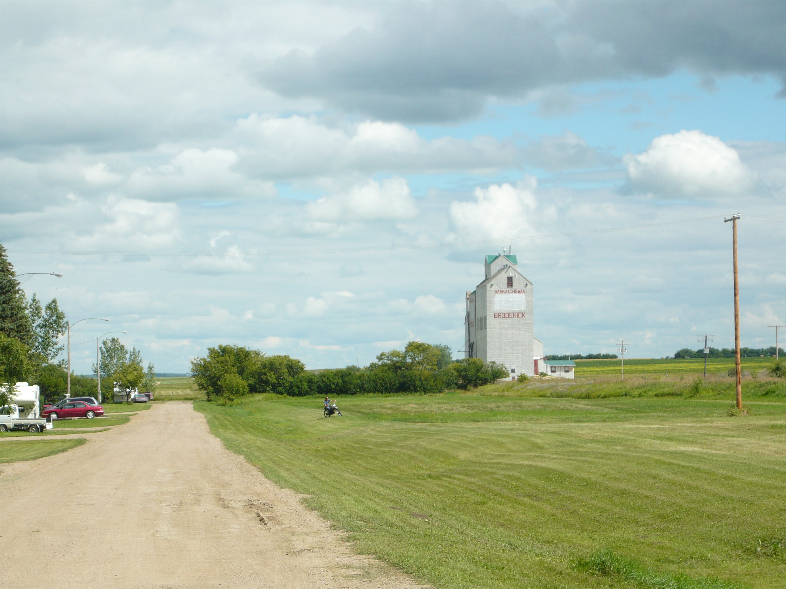 Grain elevator along Railway Avenue in Broderick, Saskatchewan, Canada.